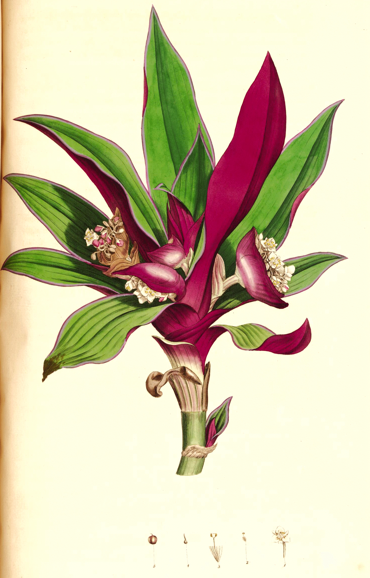 Plate from book